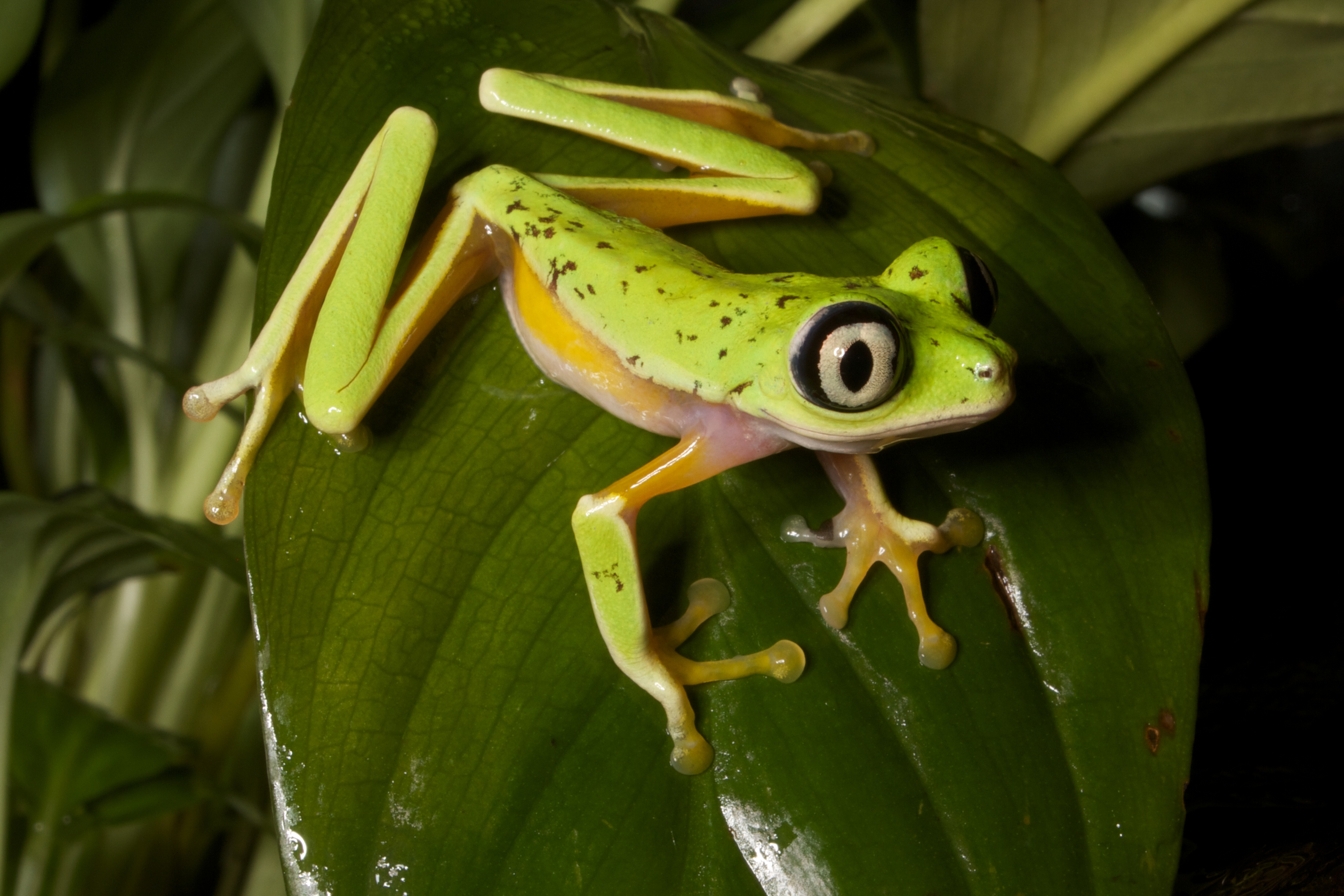 National Zoo